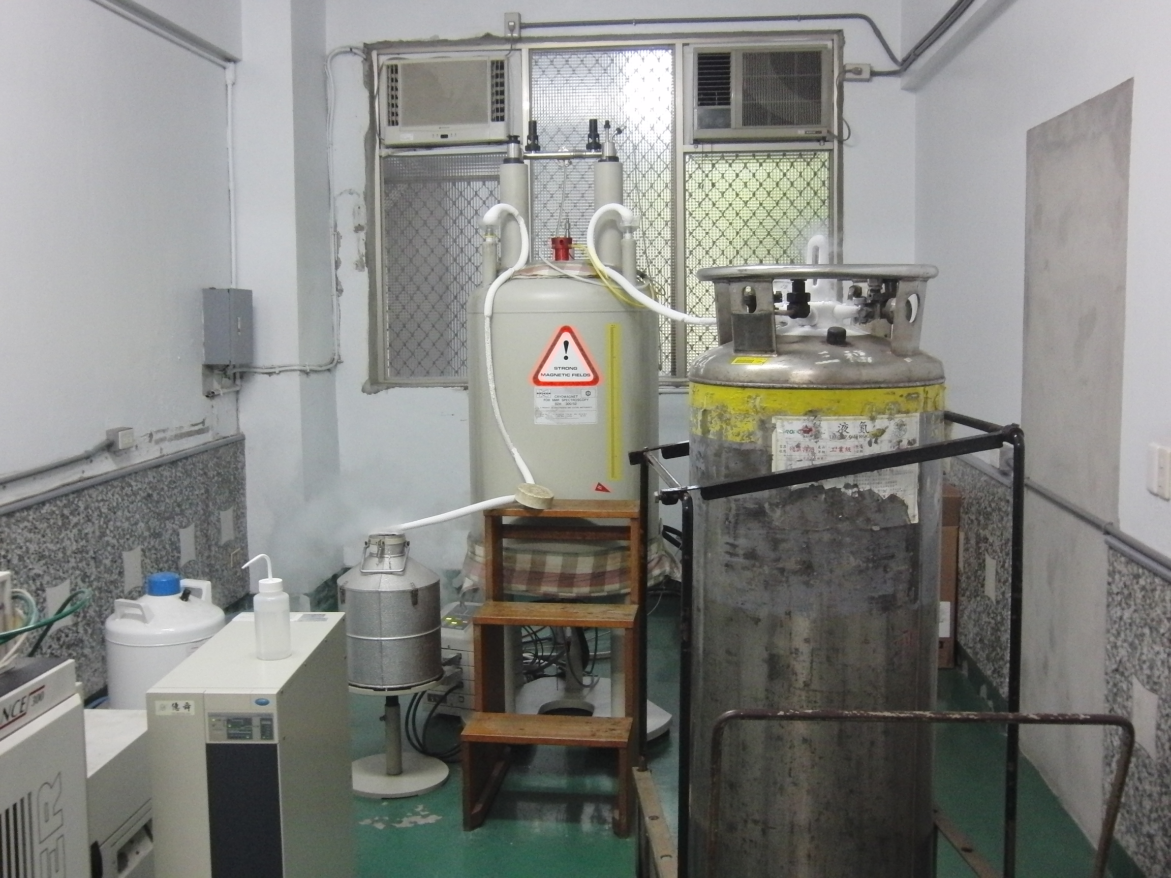 NMR filling liquid nitrogen